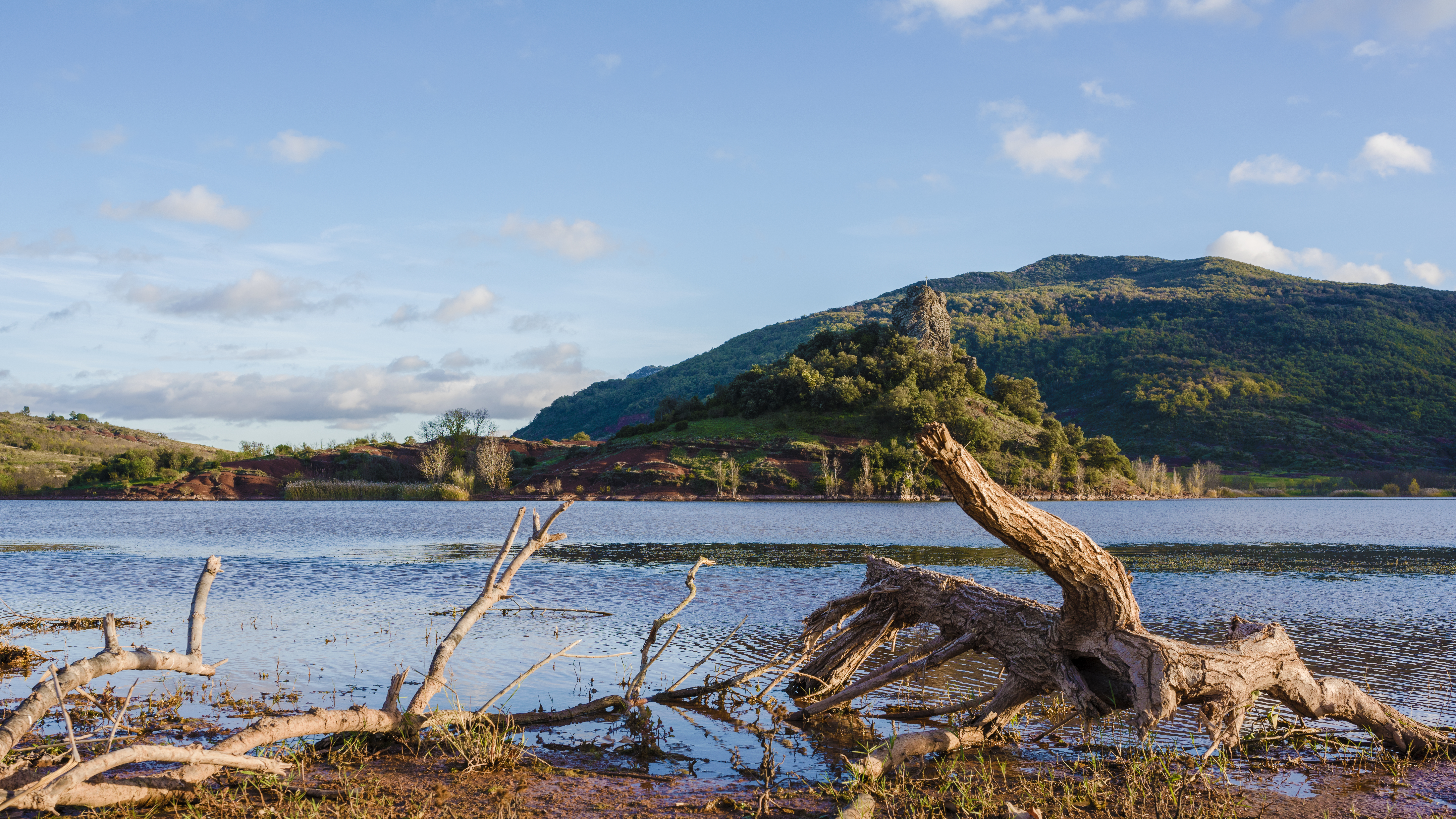 The rock of La Roque in the commune of Clermont-l'Hérault and the Salagou Lake. Seen from Octon, Hérault, France.